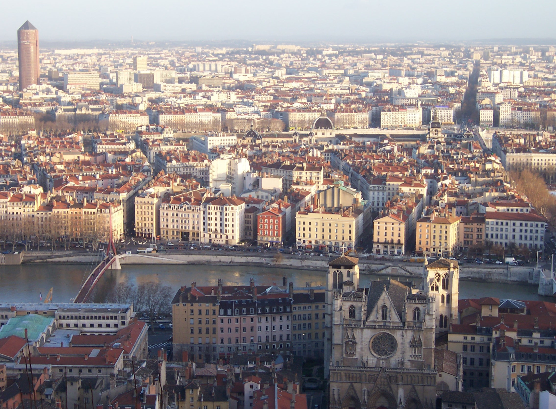 the city of Lyon seen from the hill of Fourvière